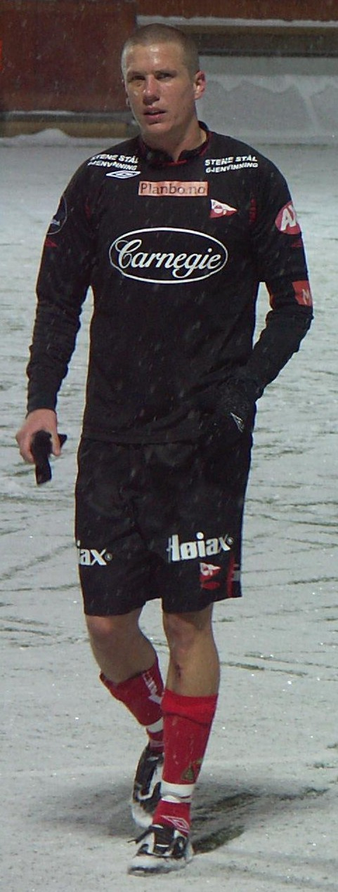 Swedish soccer player Patrik Gerrbrand playing for Norwegian team Fredrikstads FK.